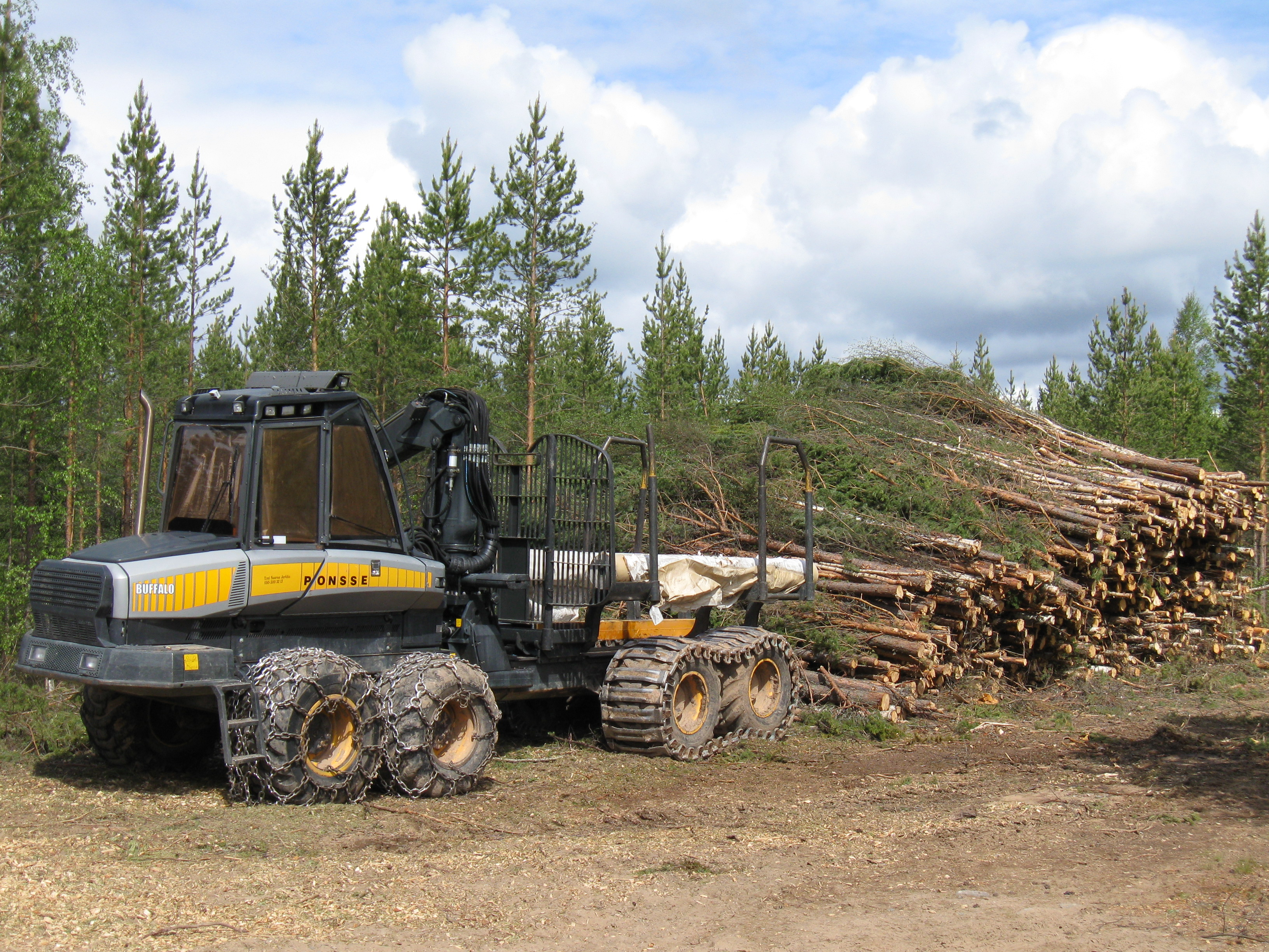 A Finnish-made Ponsse Buffalo forwarder parked next to a pile of cut trees.